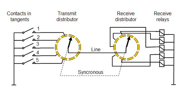 System sketch of Baudot's printing telegraph